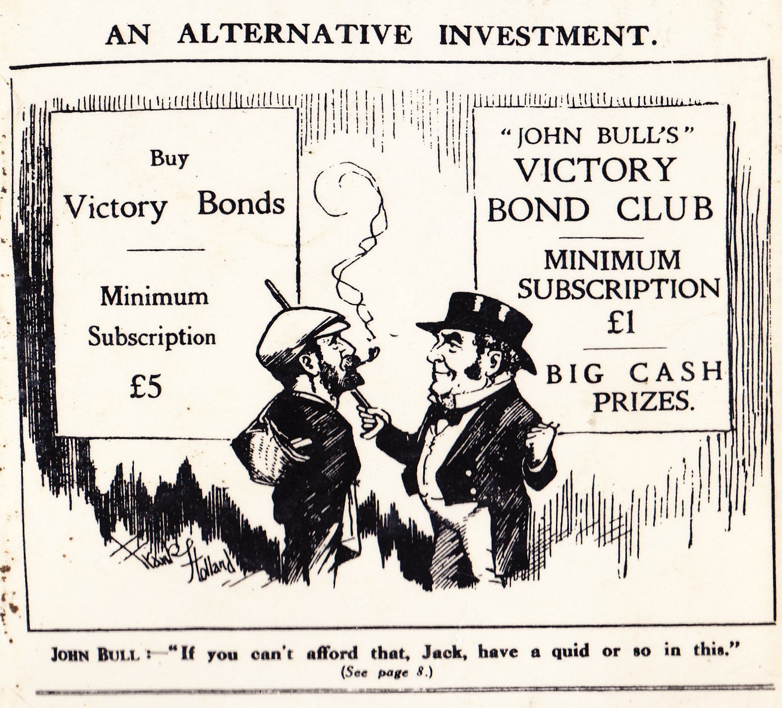 A cartoon from John Bull magazine, 1919, depicting Horatio Bottomley's "Victory Bonds" scheme